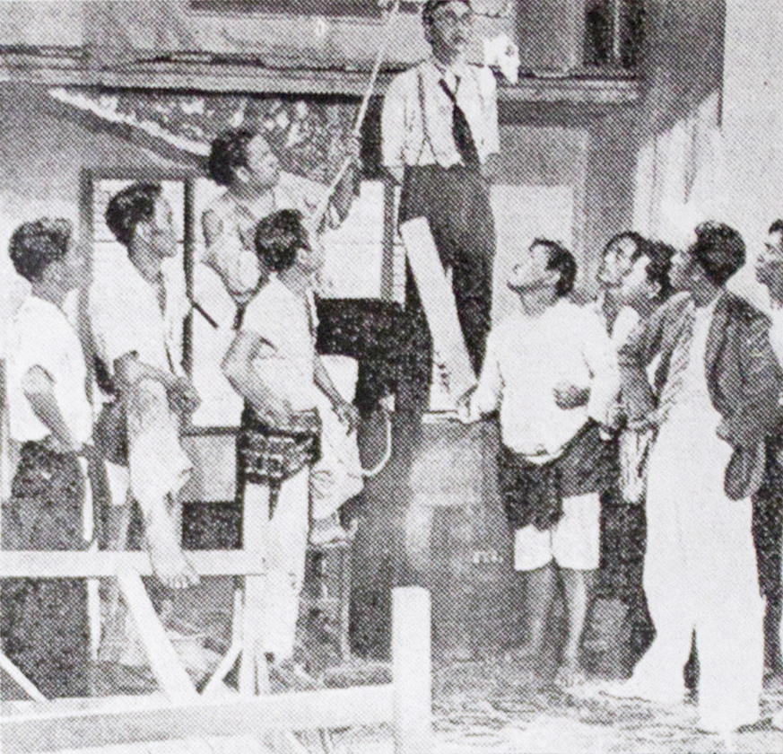 Pah Wongso in a scene from Pah Wongso Pendekar Boediman, completed by Star Film and released in April 1941.